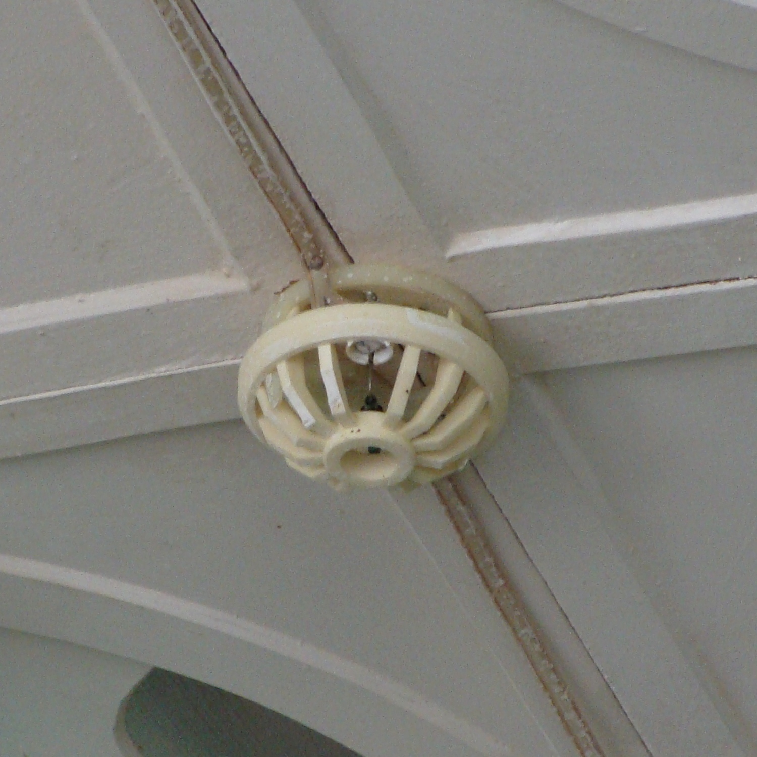 Heat detector, Russia